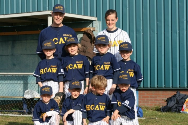 Peanutball team HCAW 2007